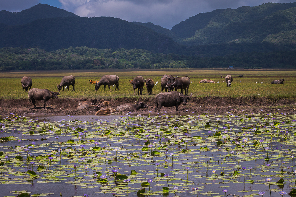 Lake Ira Lalaro